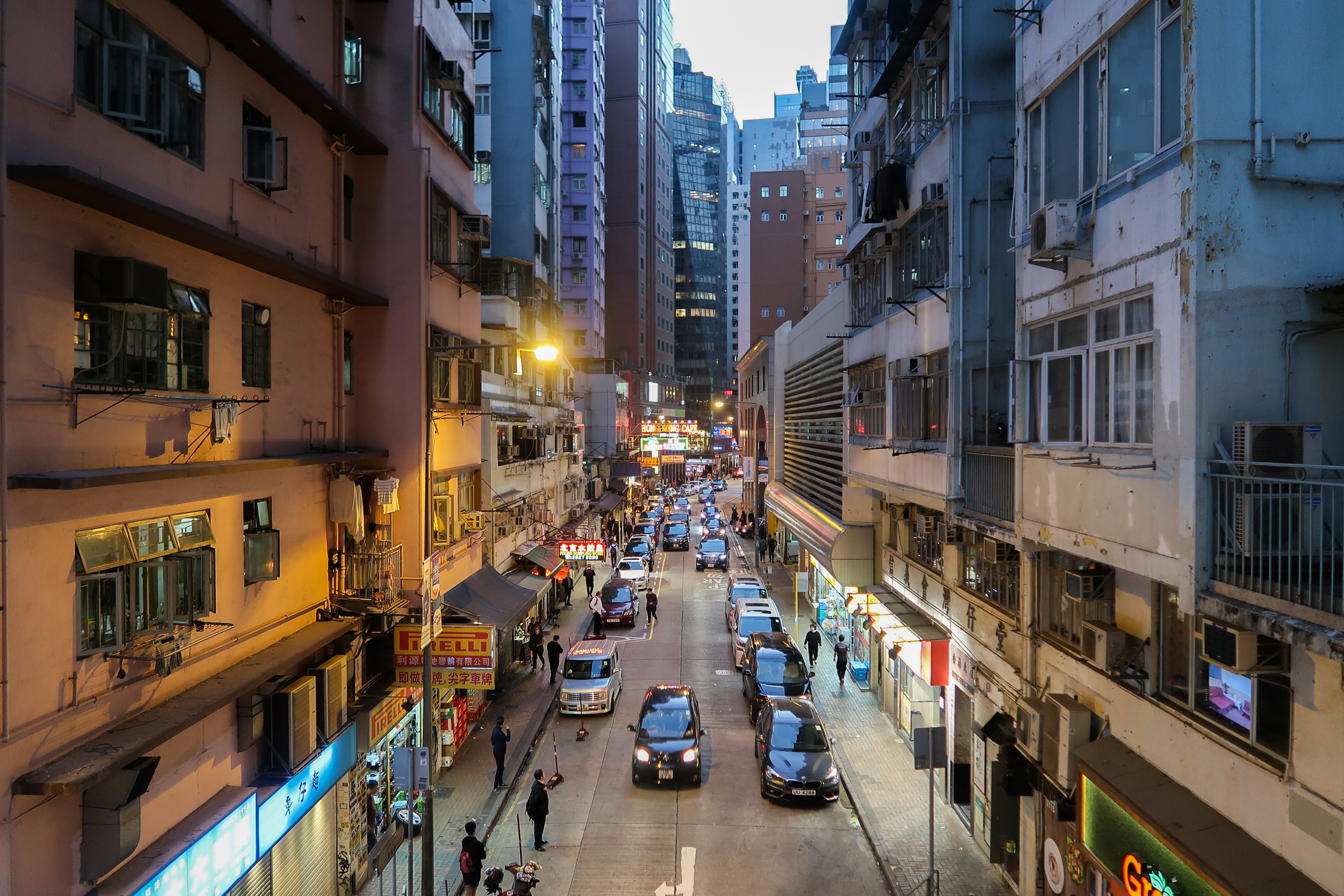 Jaffe Road